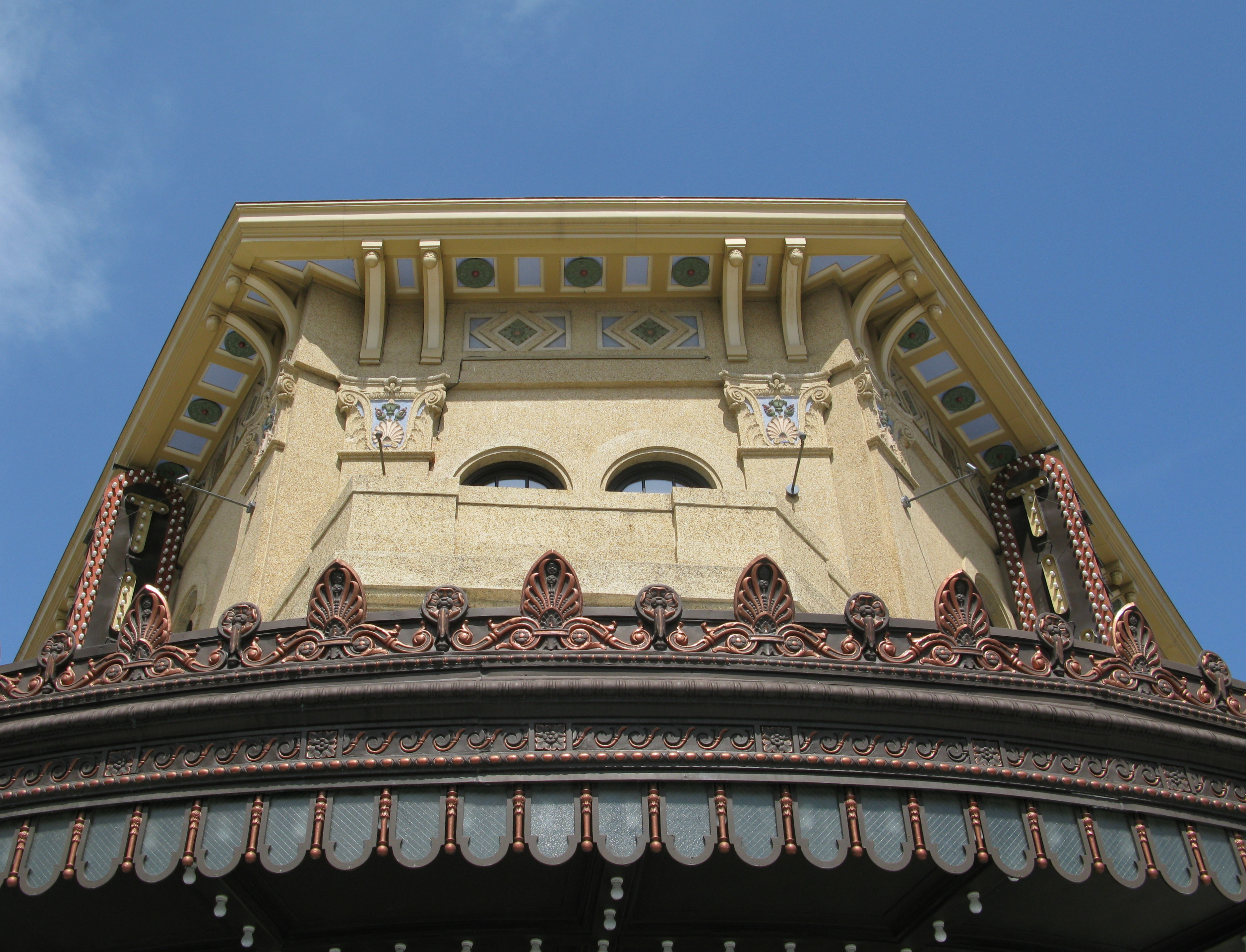 Columbia Heights 3301 14th Street NW Washington, D.C.